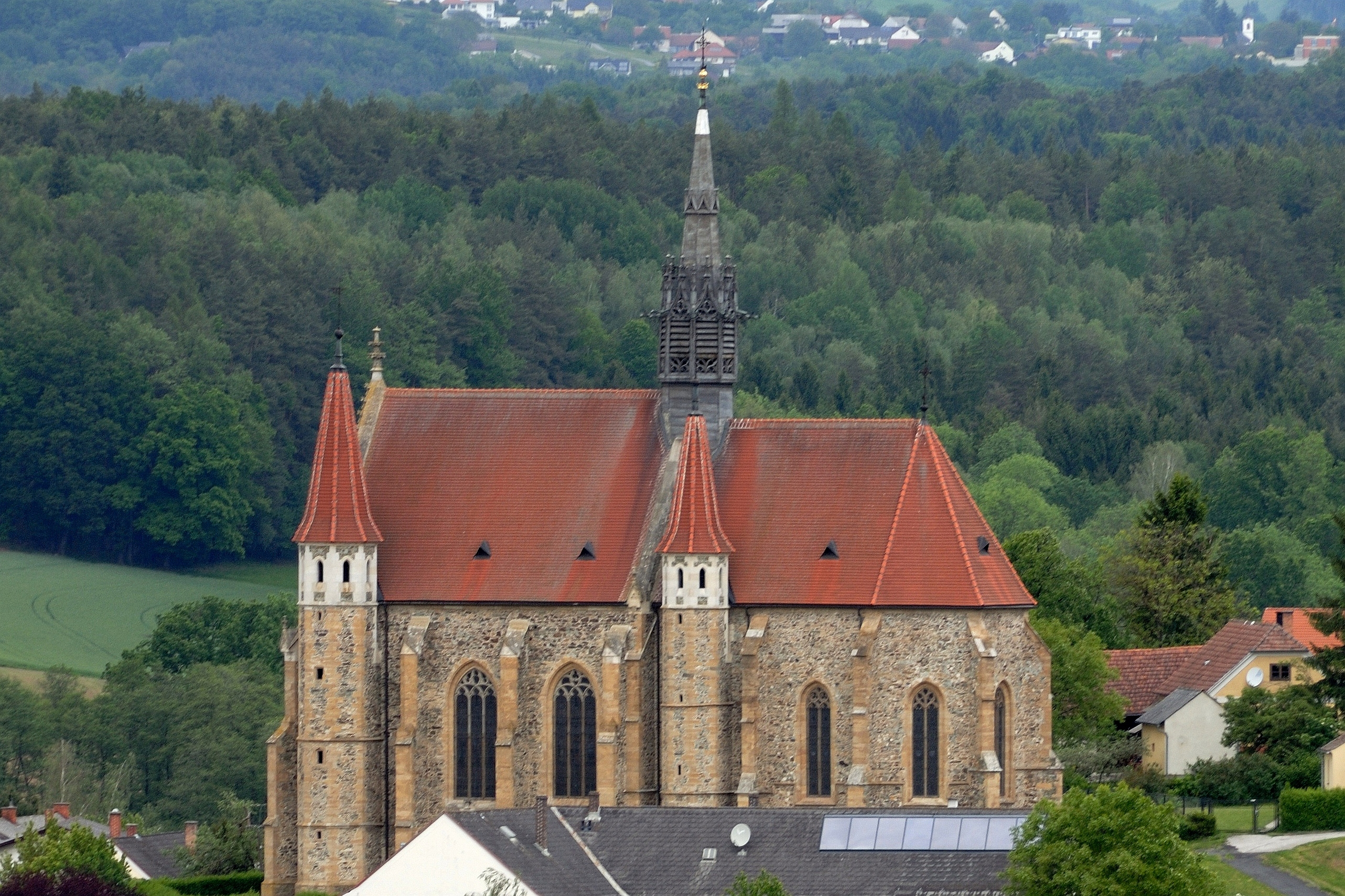 Catholic Parish Church Mariä Himmelfahrt, Mariasdorf, Burgenland, Austria